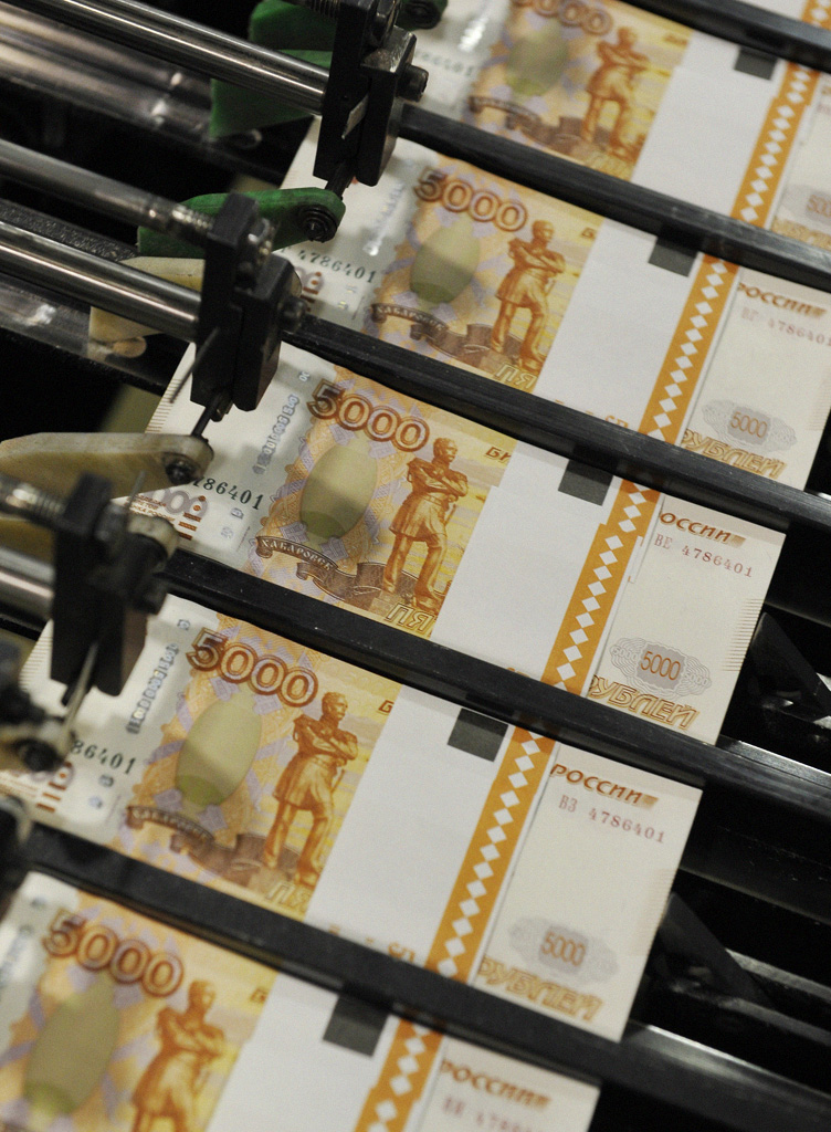 “Printing banknotes at Goznak factory in Perm”. Banknotes on the conveyor, prepared for packaging at the Goznak factory in Perm.